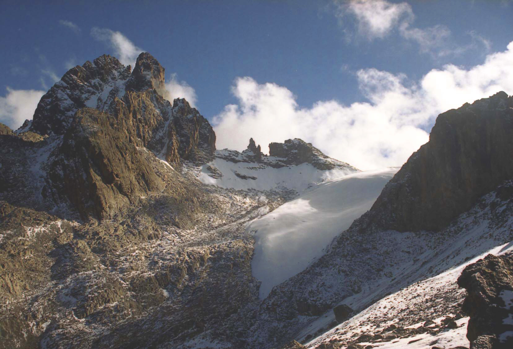 The summit of Mt Kenya. Along the skyline: Batian (5,199m), the Gates of Mist, Nelion (5,188m), Thompson's Flake, Pt Thompson (4,955m) and the Lewis Glacier. Pt Melhuish (4,880m) is the peak in front of Batian. The photo is taken on the Naro Moru route en route to the Austrian Hut.